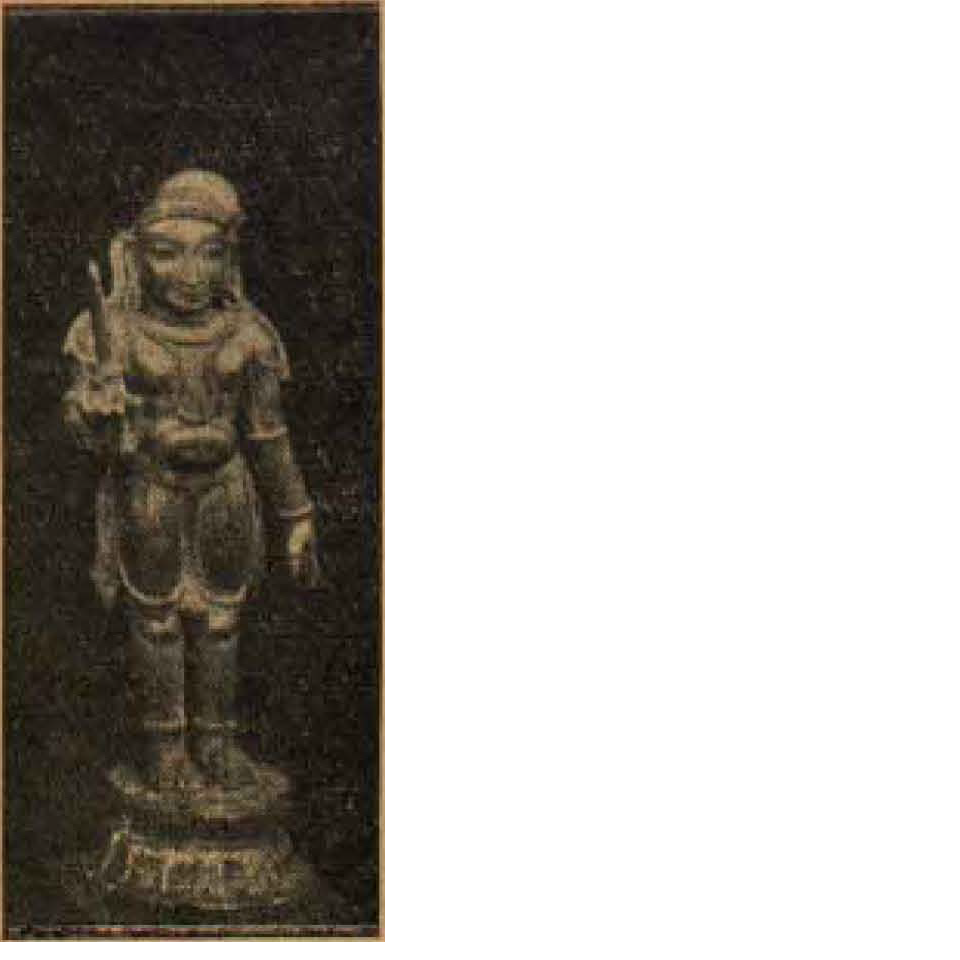 అళియదంగుళినాయనారు